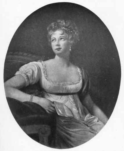 Madame Grand, later Princess de Talleyrand